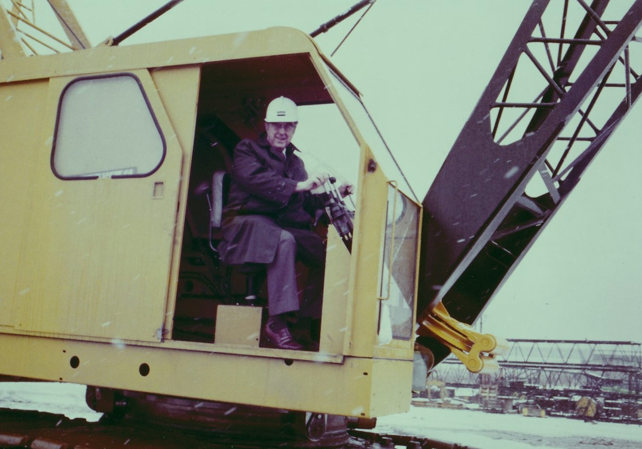 Max Moody Jr